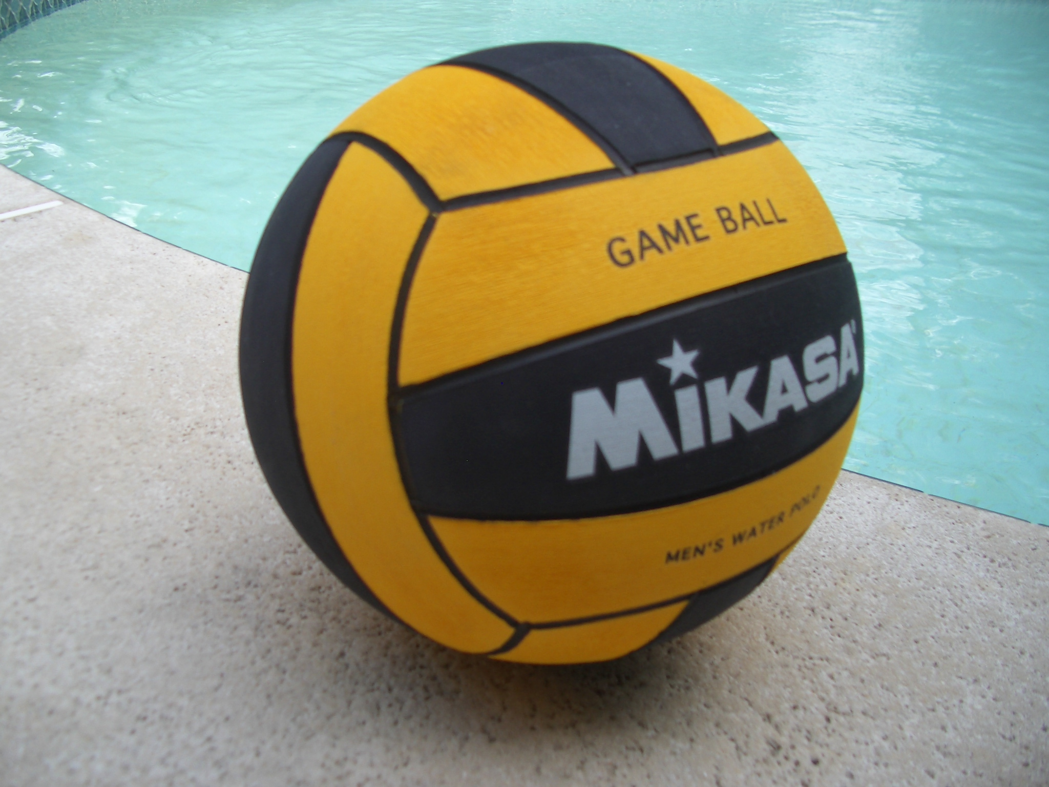 I took this photo myself. Ryanjo 01:09, 7 January 2007 (UTC)